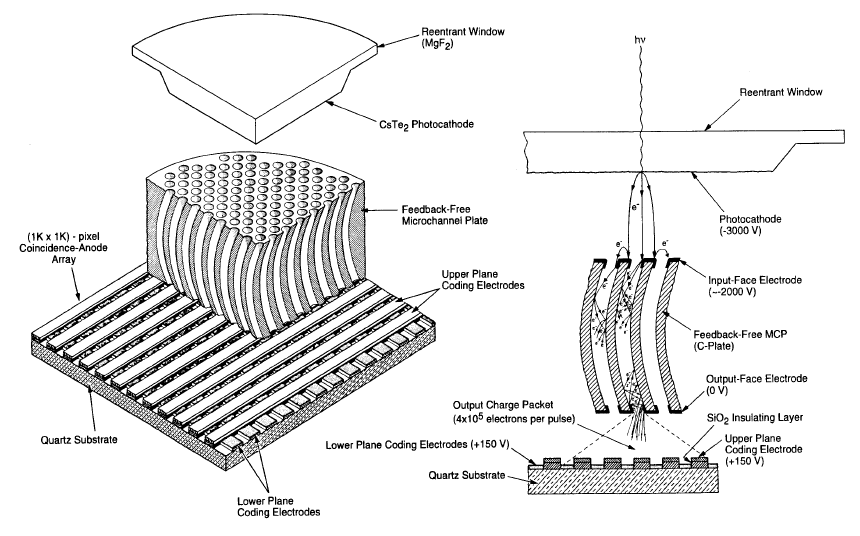 The design of the MAMA-Sensor from the STIS (Space Telescope Imaging Spectrograph) NUV-Channel